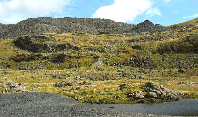 A means of getting home quickly. Apart from the few who lived in barracks at the quarry, most of the workers at this the highest and one of the remotest quarries in the Blaenau area lived in the town. To overcome the problems posed by the long and tedious climb to work, the company allowed the men to ride in the empty returning trucks which were winched back up the four pitches of the inclined plane in the morning. The quarry blacksmith then devised a simple mechanism consisting of a seat resting on a bar which would span the gap between the two sets of tramway lines on the inclines. This made it possible for the quarrymen to return back home in the evening at speeds of up to 50 miles per hour. These devices were called 'ceir gwyllt' (wild cars). The following links deal with these vehicles, and include a clip from the 1935 Welsh language blockbuster "Y Chwarelwr (the quarryman"). 565910